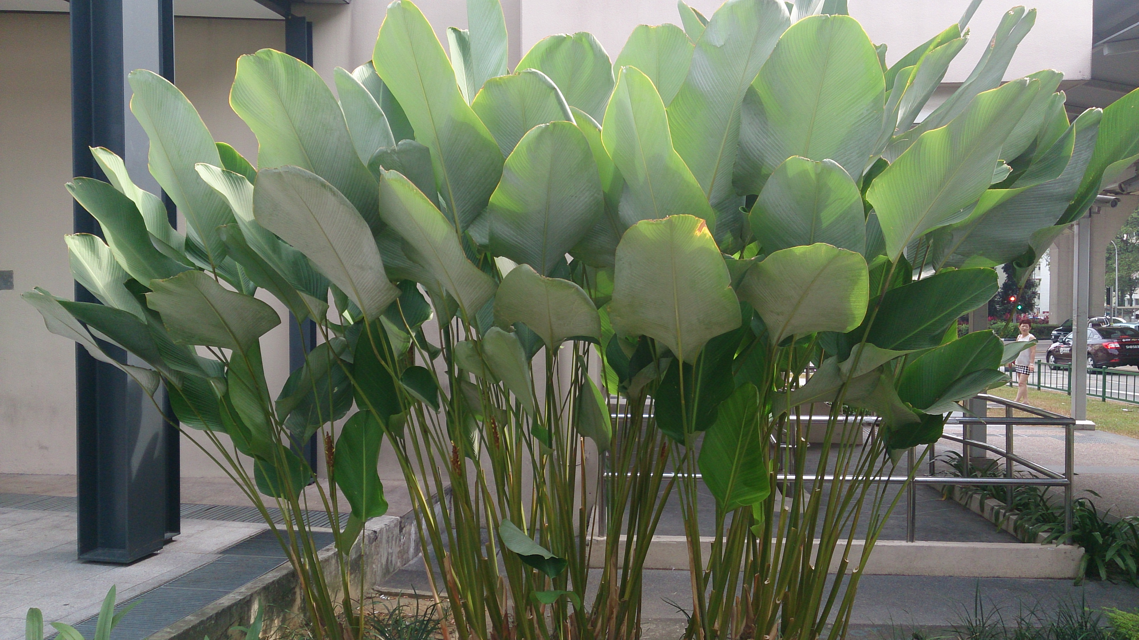 Calathea lutea